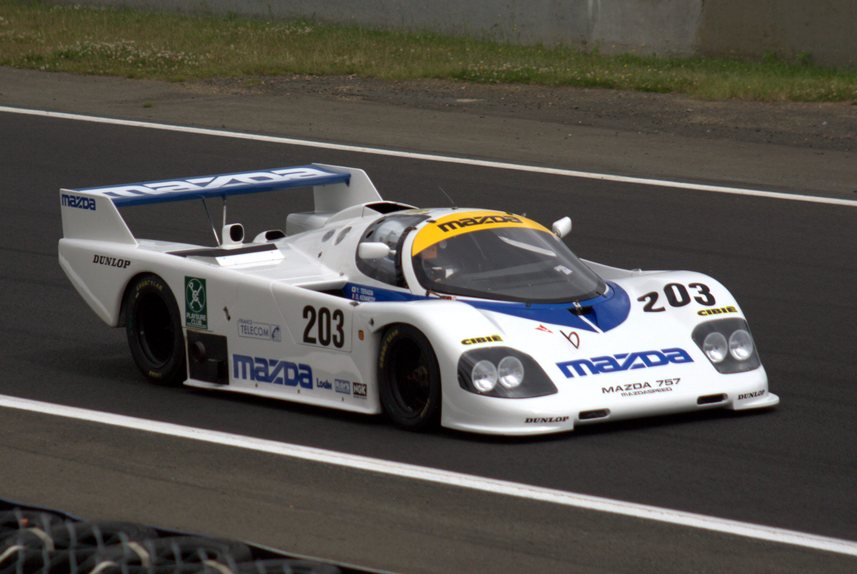 Mazda 757, LM Story, Le Mans. 7th June 2007